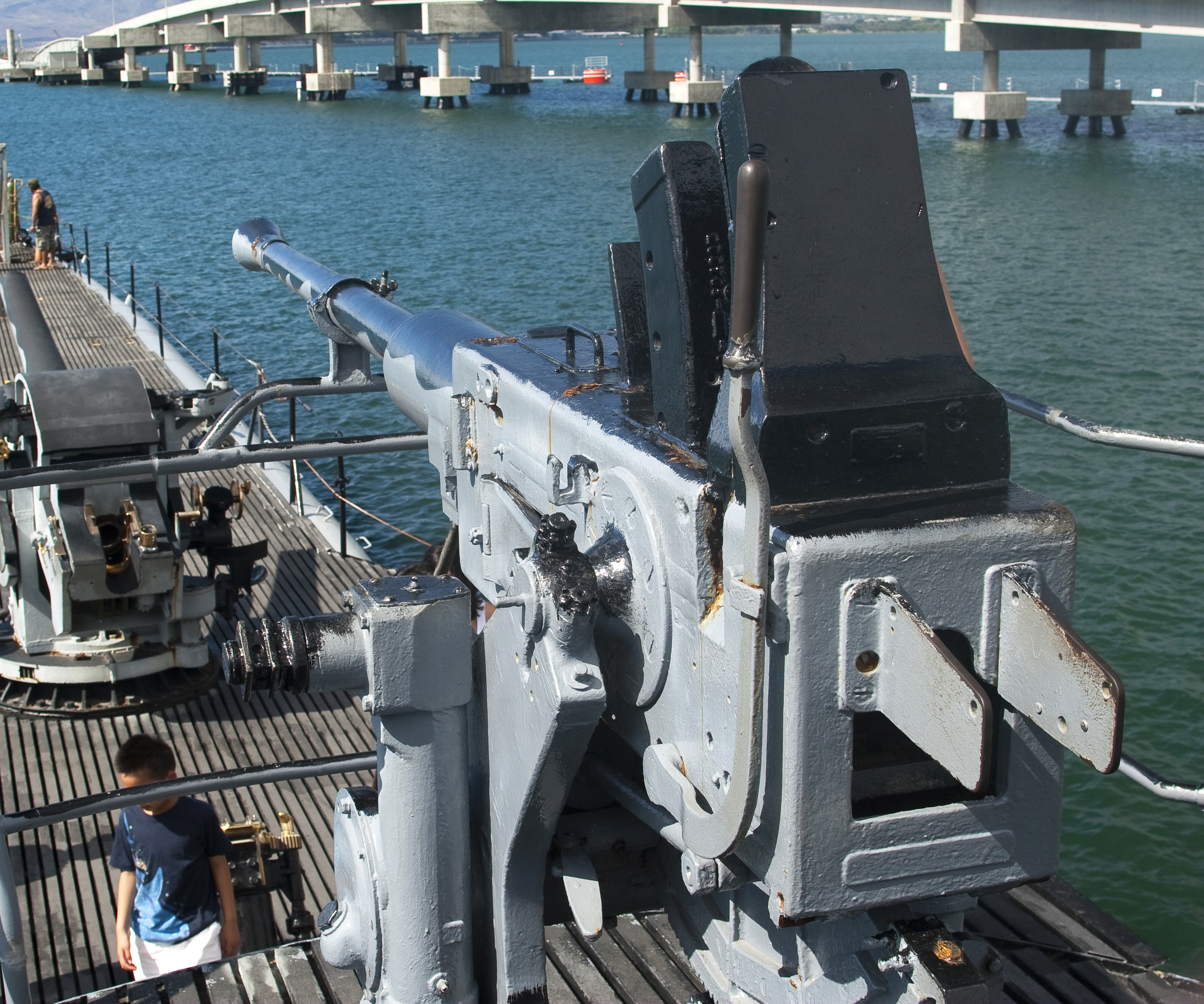 The 40mm anti-aircraft gun on the USS Bowfin (SS-287). Picture taken at Hawaii, USA.